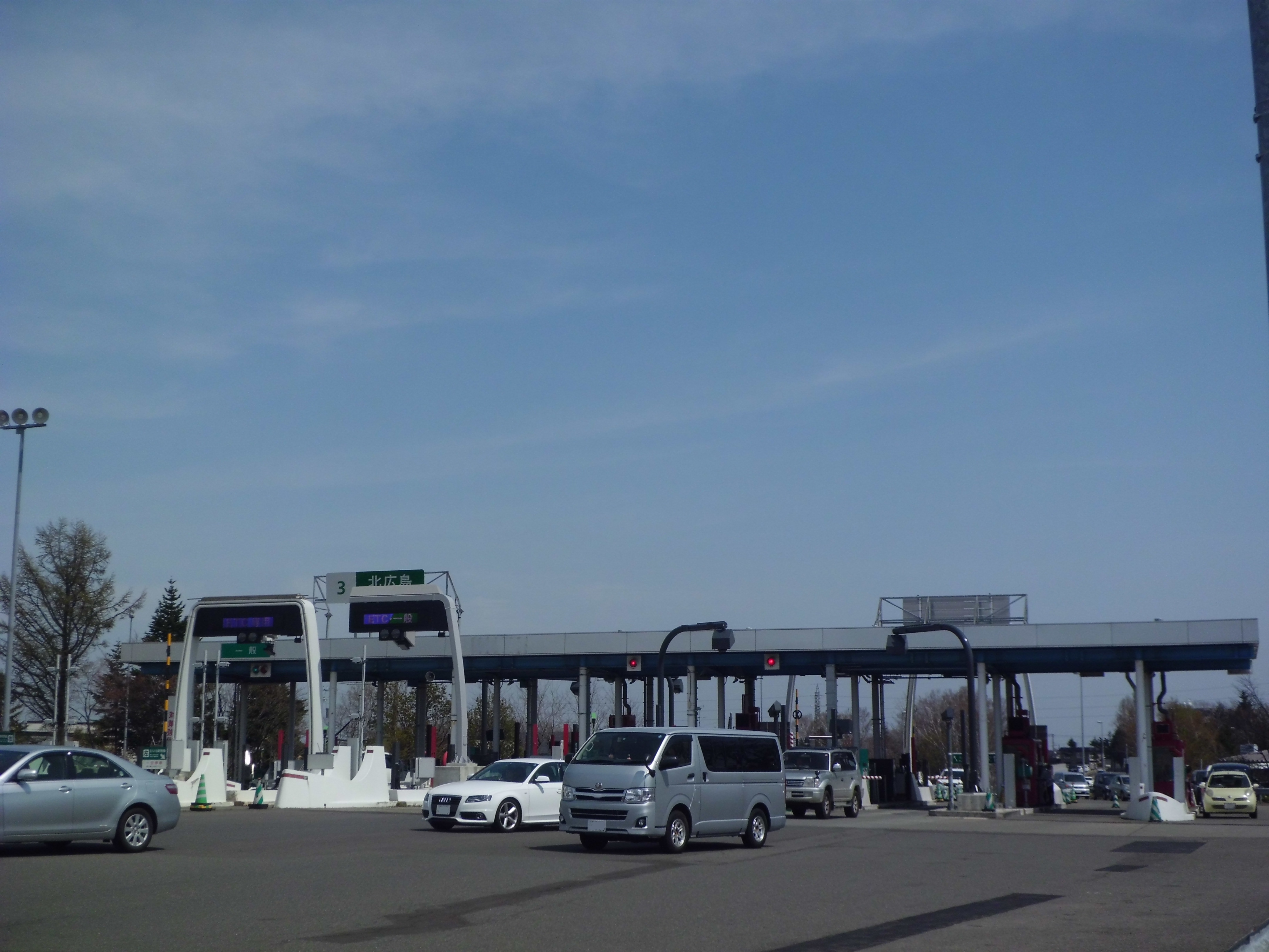 Kitahiroshima Interchange